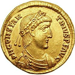 Constantine III AV Solidus. Lyons mint. D N CONSTAN-TINVS P F AVG, laurel and rosette-diademed, draped and cuirassed bust right. Depeyrot 20/3.